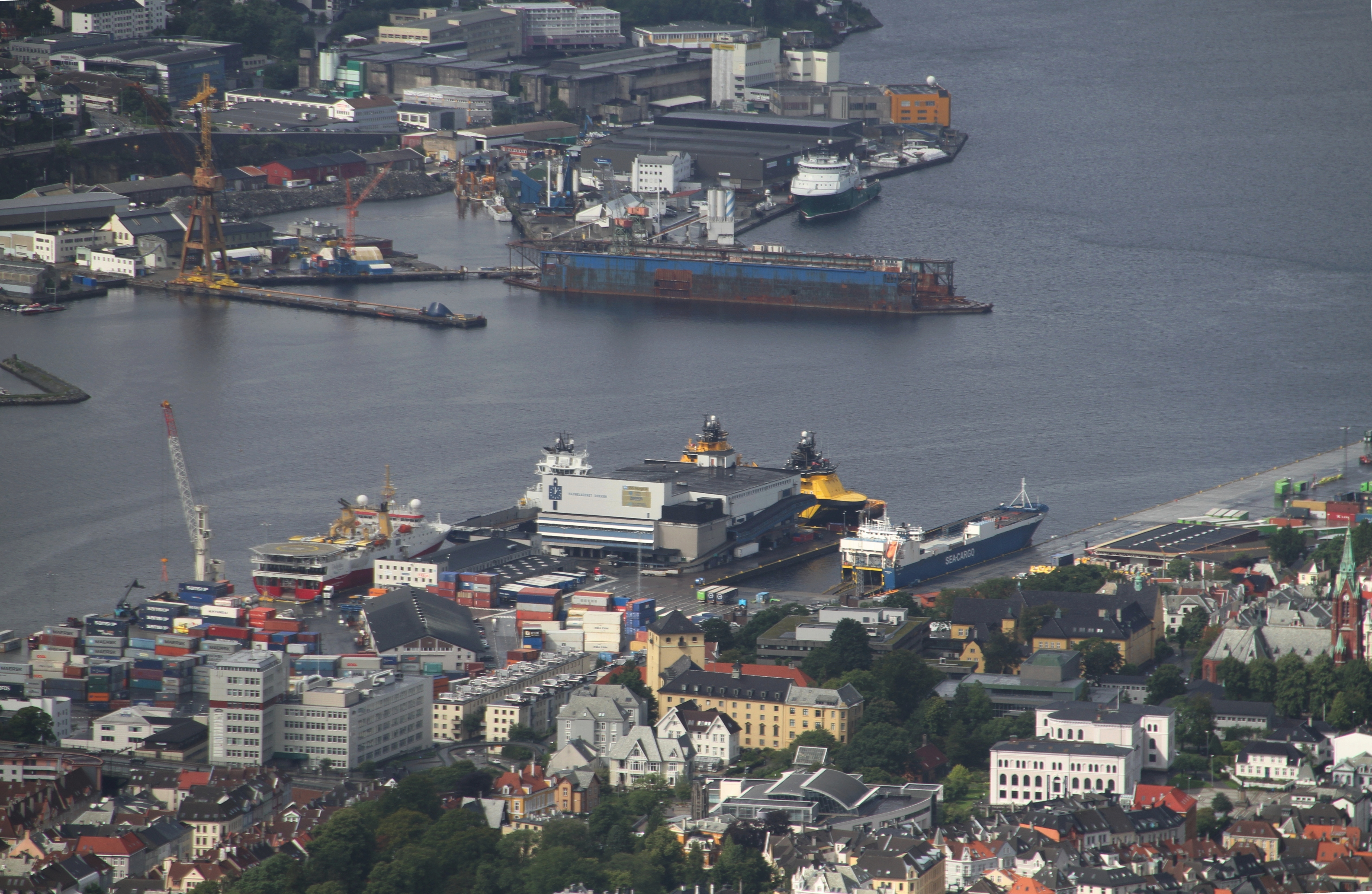 The Pudefjorden bay in Bergen (Norway), With Laksevaag WHarf, and Dokken Port Warehouse.